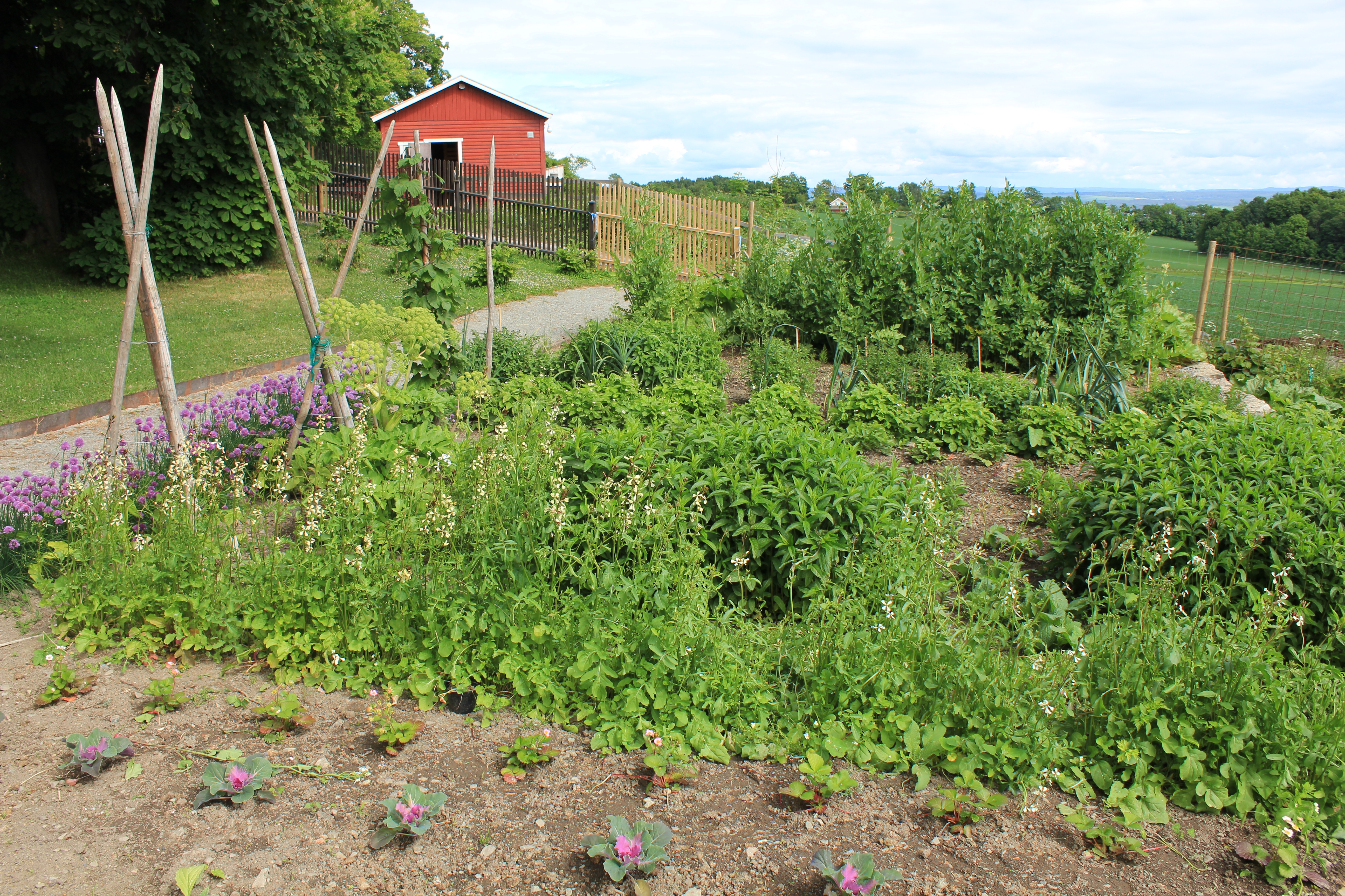 The herb garden at Hovelsrud farm, Helgøya.